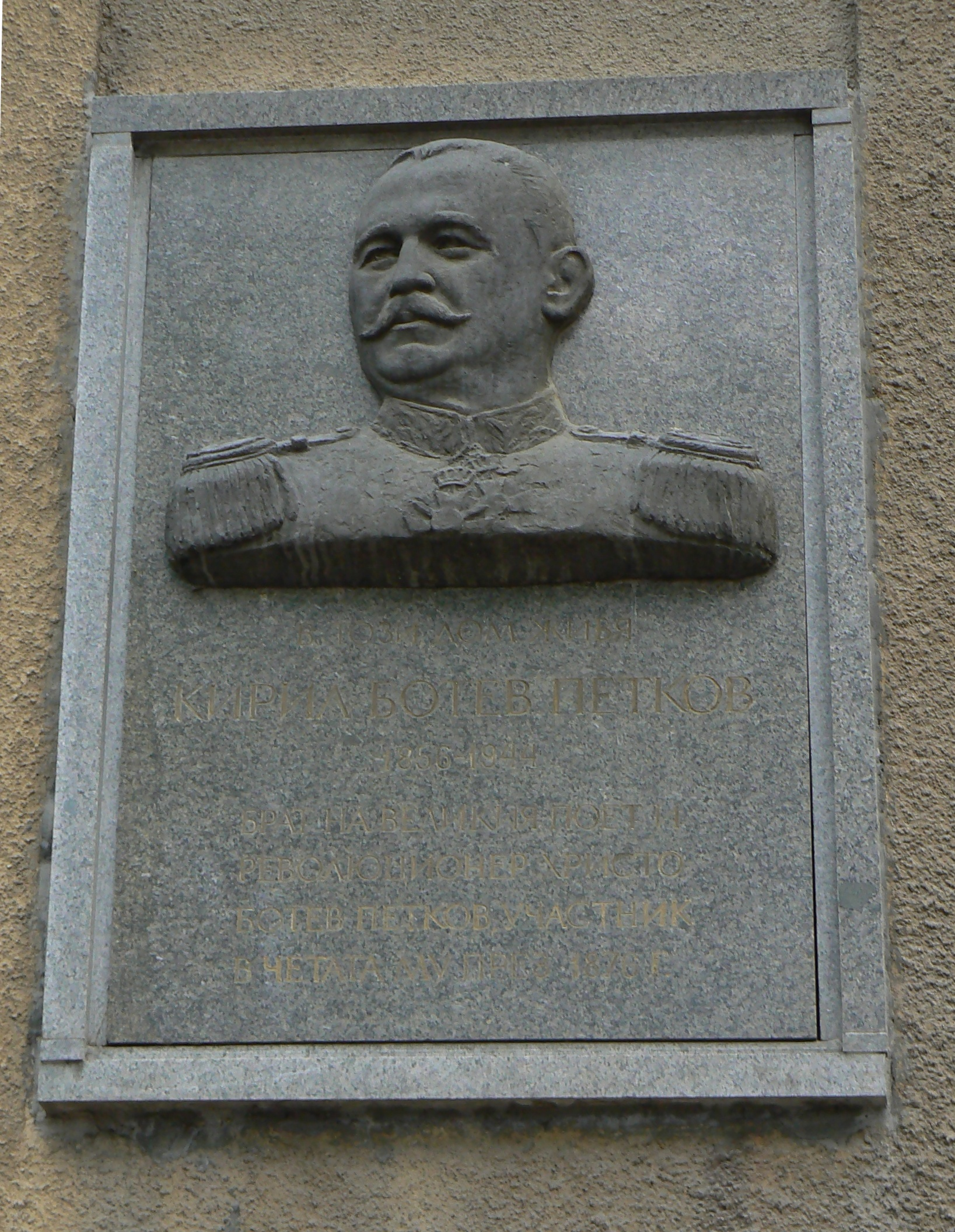 Memorial plaque of Kiril Botev Petkov, on his home in Sofia